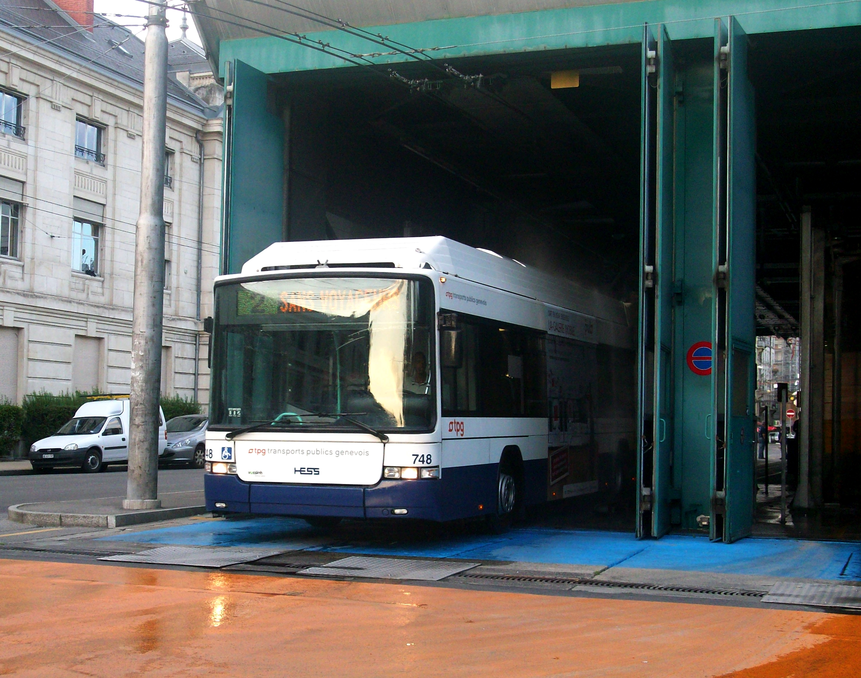 Hess Trolleybus (TPG), Geneva